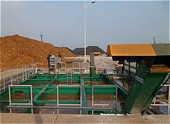 Frutiger "MobyDick Euromax" steel basin, equipped with two automatic scraper conveyors for automatic sludge discharge.